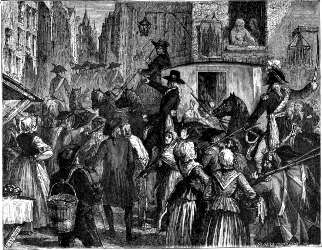 The French Royals being taken to the Temple on October 26th, 1792.